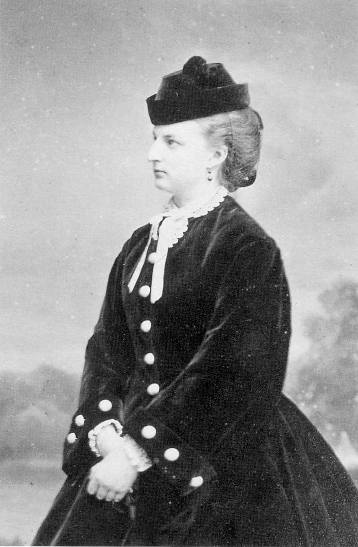 Portrait of Archduchess Clotilde, born princess of Saxe-Coburg